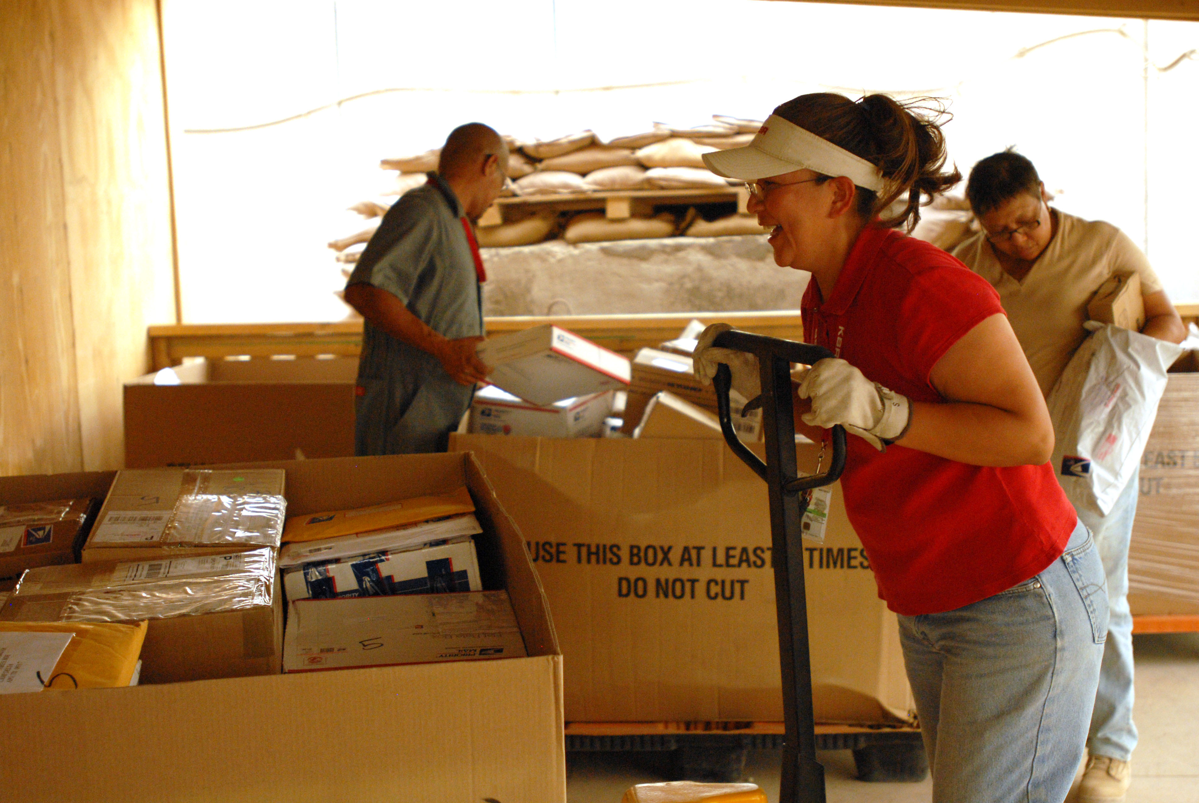 Connie Frank, Forward Operating Base Delta Post Office employee, moves a triwall of mail into the backroom of the post office for sorting after a large shipment Aug. 4, 2008. Frank was deployed to Iraq as an Army postal service specialist in 2006.